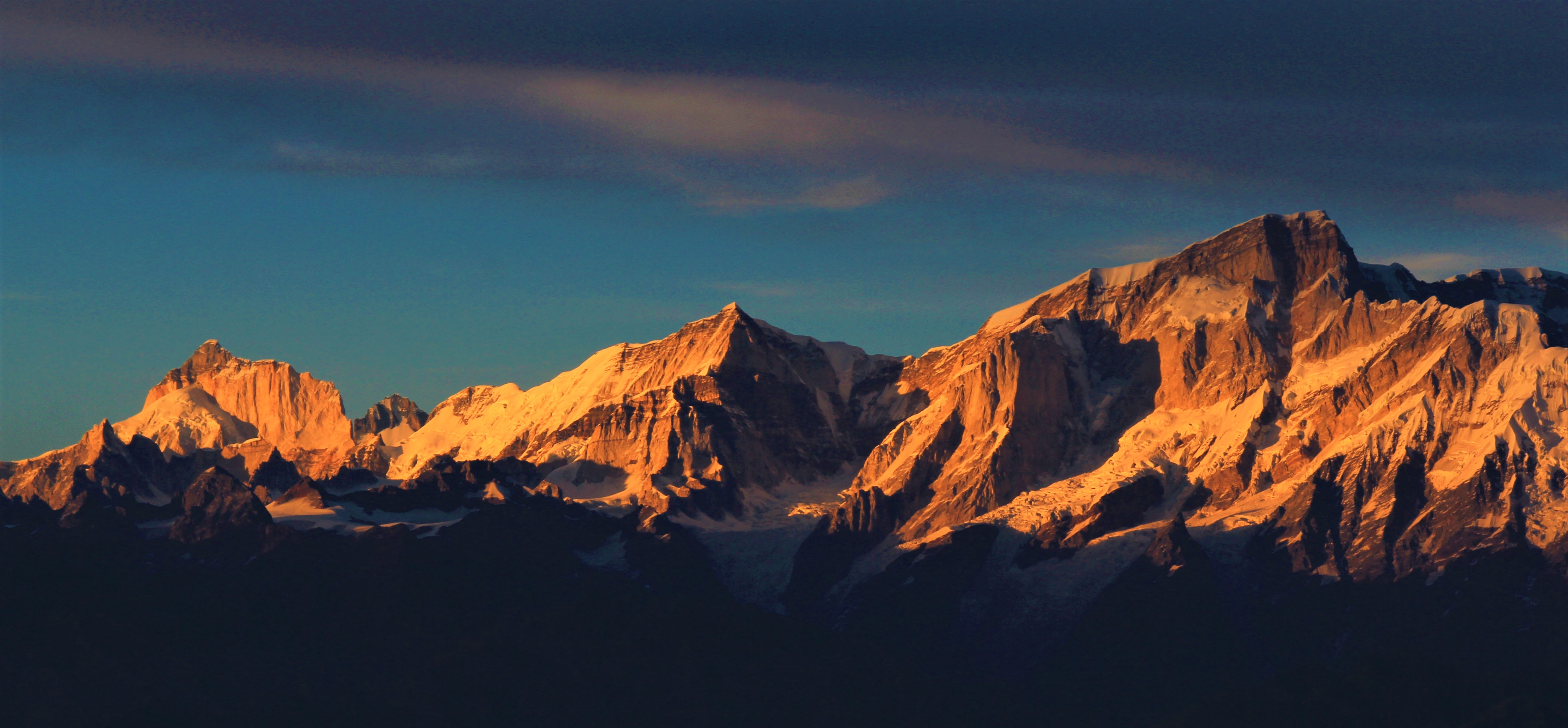 Kedarnath, Bharte khunta and Thalay Sagar at dusk from Kartik Swamy